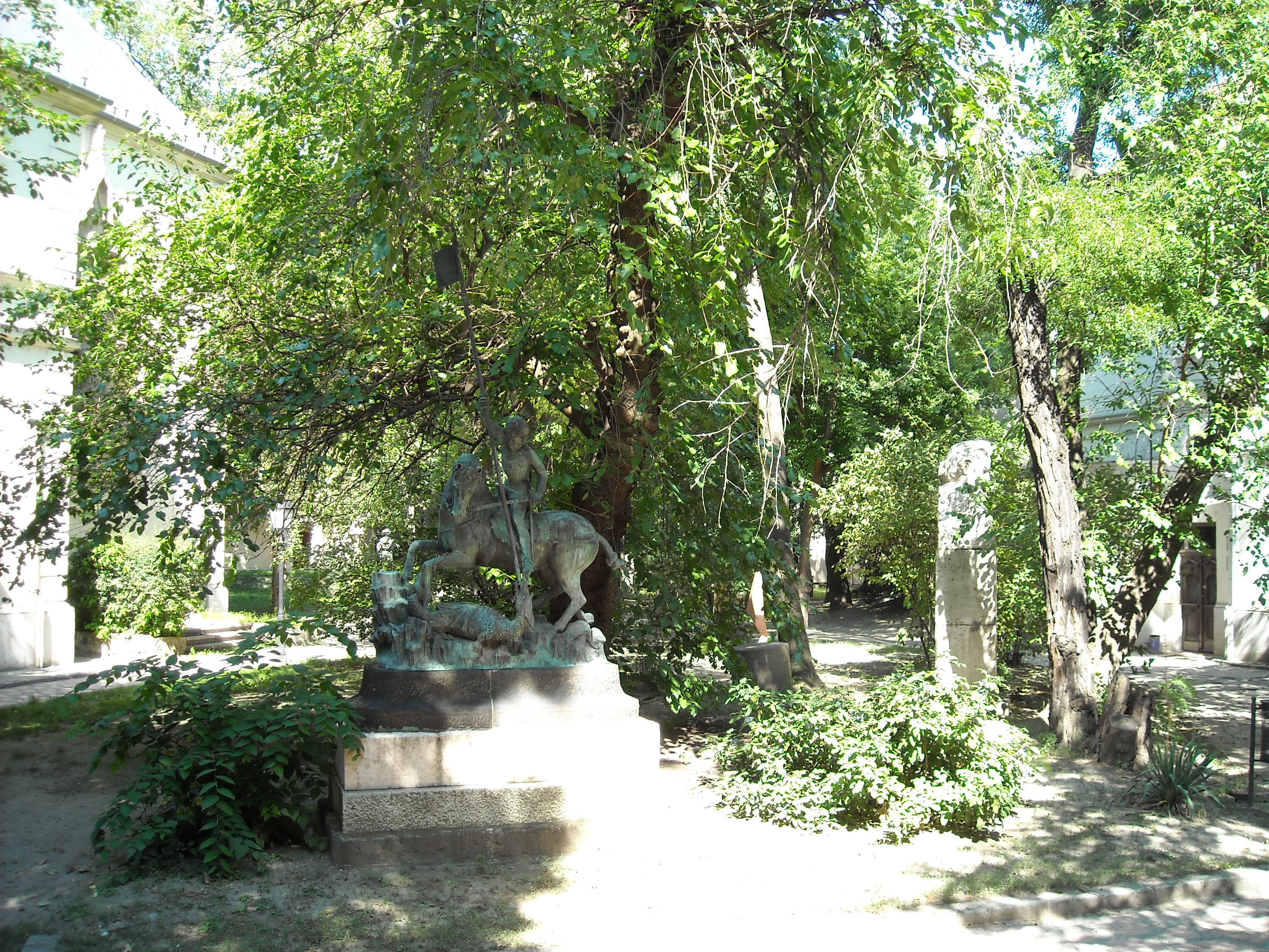 Epreskert (a park belonging to the University of Fine Arts), Budapest